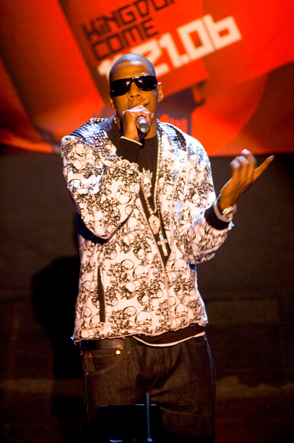 Jay-Z on the The Jay-Z Hangar Tour at the Riviera Theater in Chicago, IL, USA, November 18, 2006. Photo by Adam Bielawski